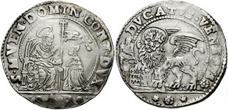 Italy (Italian States), Venice. doge Domenico II Contarini. 1659-1675. AR Ducato Novo [Ducatello] (40mm, 22.65 g). Angelo Dolfin, mintmaster. Struck 1666/7. St. Mark seated right on throne, blessing and presenting banner to Doge kneeling left; *A D* in exergue Nimbate and winged lion standing left, head facing, holding Gospel in paw; castle on mountain before. References: Papadopoli 146; Scarfèa 960.